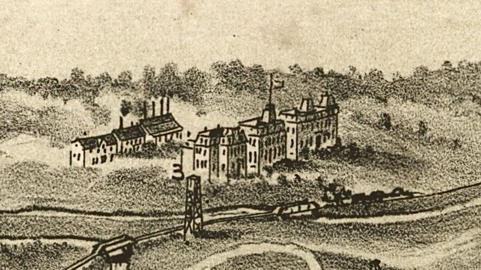 A crop of a Pictorial map of Canonsburg, Pennsylvania from 1897 showing Western State School and Hospital